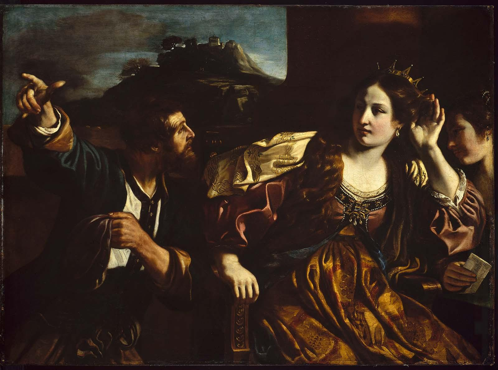 A depiction of the legendary Assyrian queen Semiramis being informed of the Revolt of Babylon in 626 BCE.